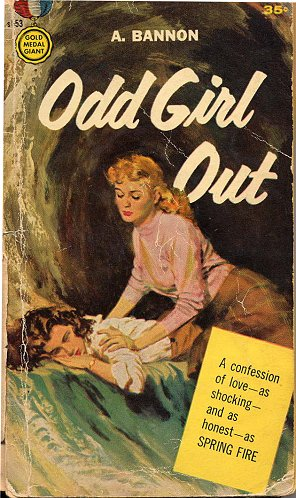 Cover of Odd Girl Out, 1957, Gold Medal Books. The blurb on the back read: "Beth was there when Laura arrived...She was the brain, the sparkle, the gay rebel voice of the sorority, and wonder of all wonders, she chose Laura as her roommate. That was the way that it began, the one up there at the pinnacle and the other, the lonely one, longing always to draw nearer and nearer. Suddenly the distance between them closed and they were alone on an island of forbidden bliss... Like the unforgettable SPRING FIRE, here is an urgent young first novel of emotions running wild - beyond the pale into the dark country of love that should never have been." Lapse of copyright asserted by book author, Ann Bannon. --Moonriddengirl (talk) 23:42, 15 July 2010 (UTC)